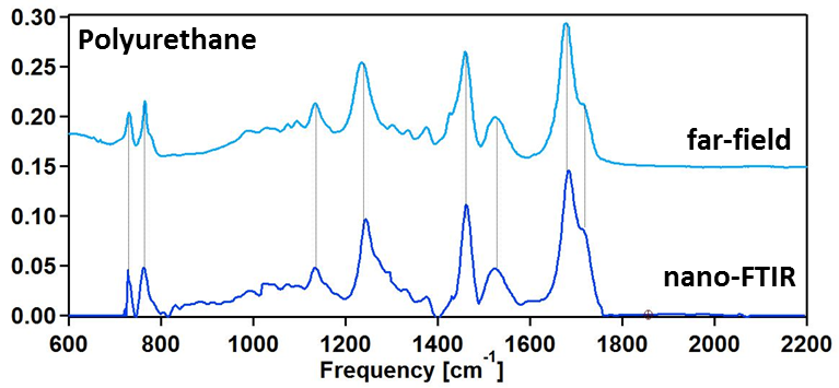 nano-FTIR spectra of polyurethane obtained using neaSNOM microscope